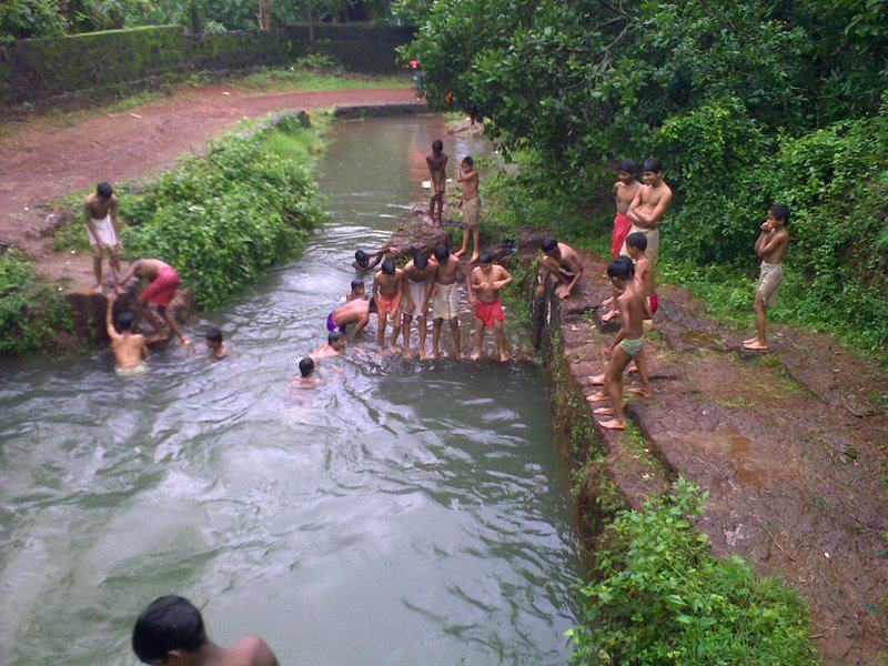 Pond in Poocholamad